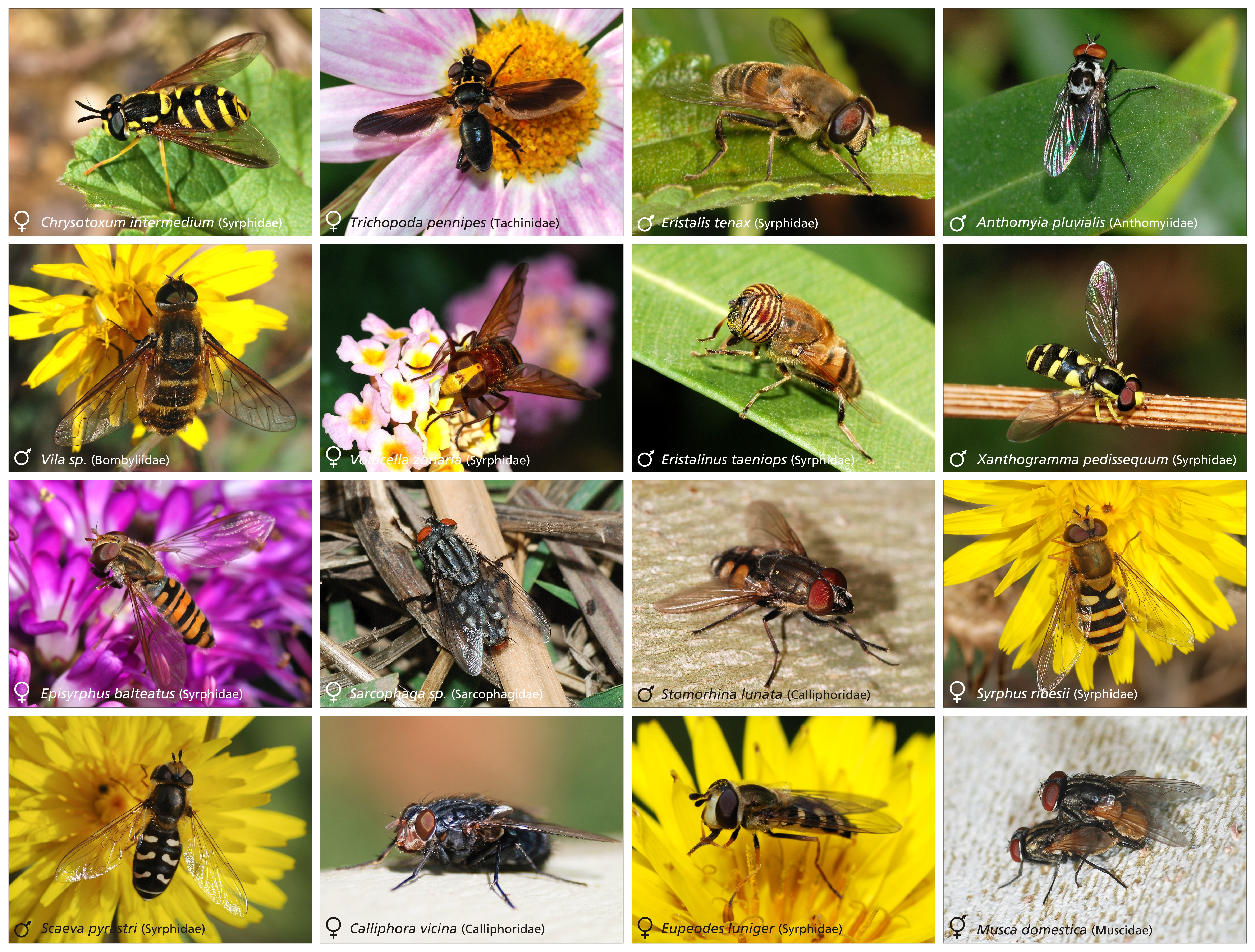 A poster of flies (Diptera)